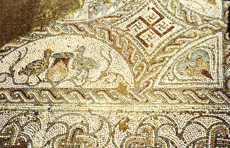 Mosaic at the Villa Rustica at Pisões in Portugal.